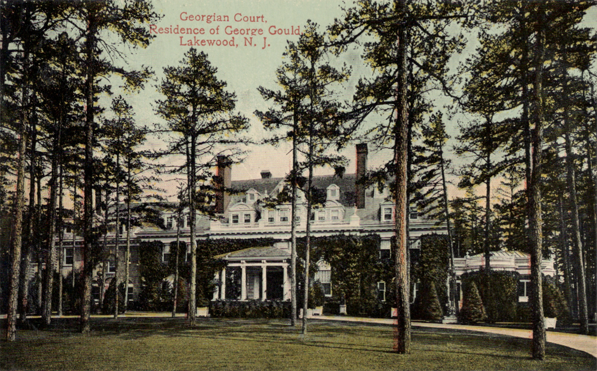 Unmailed glossy photochrom postcard of front of Georgian Court, residence of George Jay Gould I, Lakewood, New Jersey, USA. Back is divided. Stamp box reads "DOMESTIC ONE CENT - FOREIGN TWO CENTS" and "Pub. by The American News Company, New York M-7693". It also bears the company logo of a shamrock inside an arch that reads AMERICHROME. Below that is written "LEIPZIG BERLIN NEW YORK PRINTED IN THE UNITED STATES"